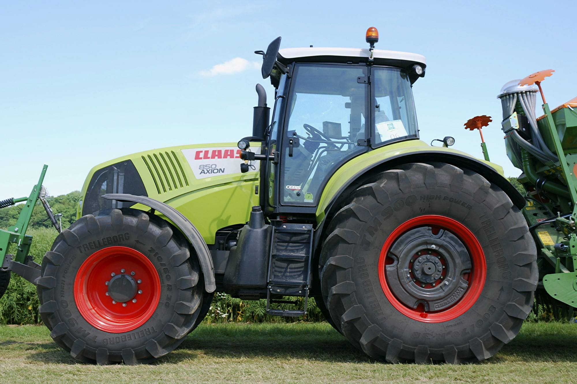 Claas Axion 850 tractor; DLG field days 2010, Gut Bockerode, Springe-Mittelrode, Lower Saxony, Germany.